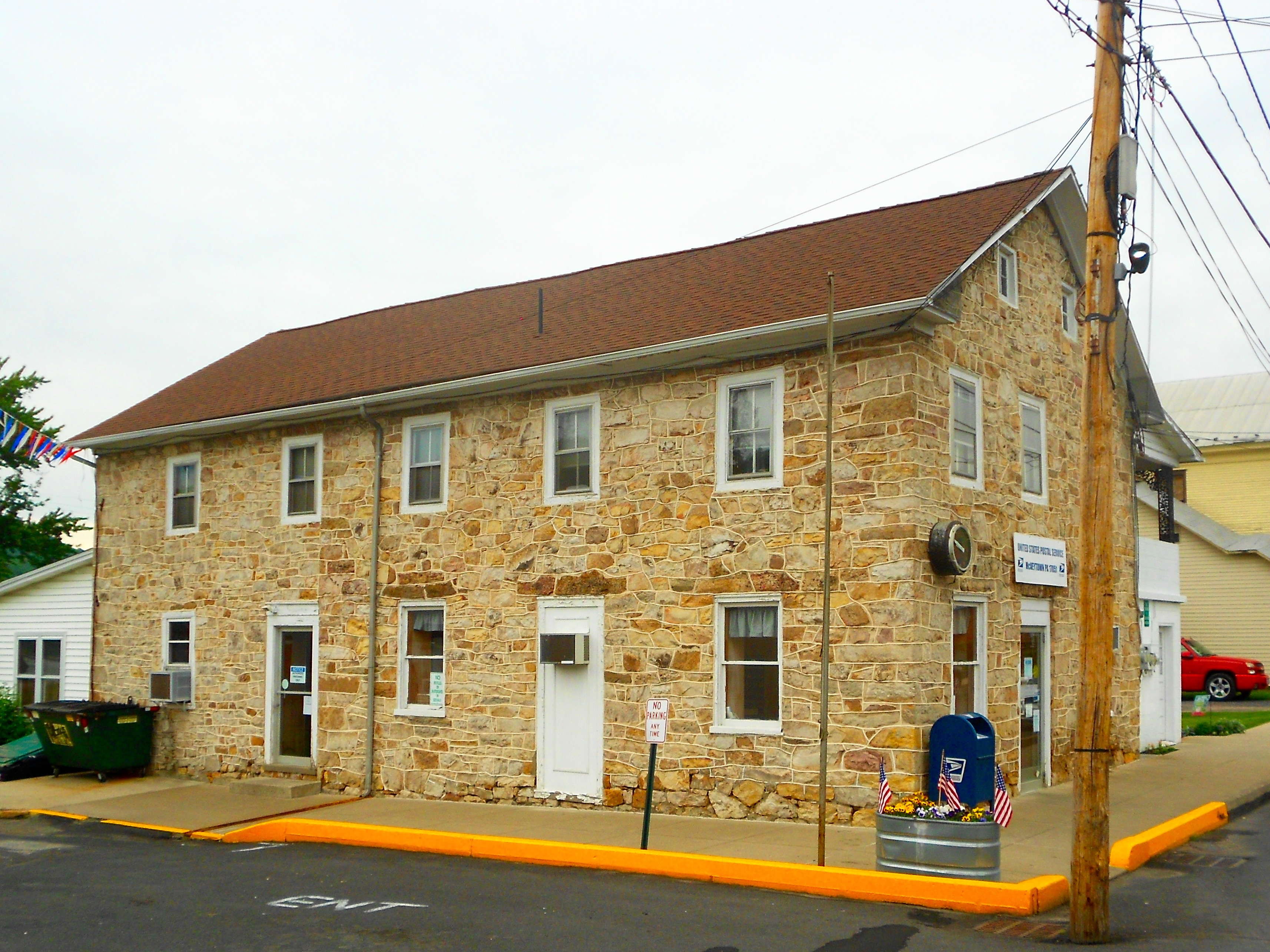 United States Postal Service postoffice in McVeytown, Mifflin County, Pennsylvania zip code 17051